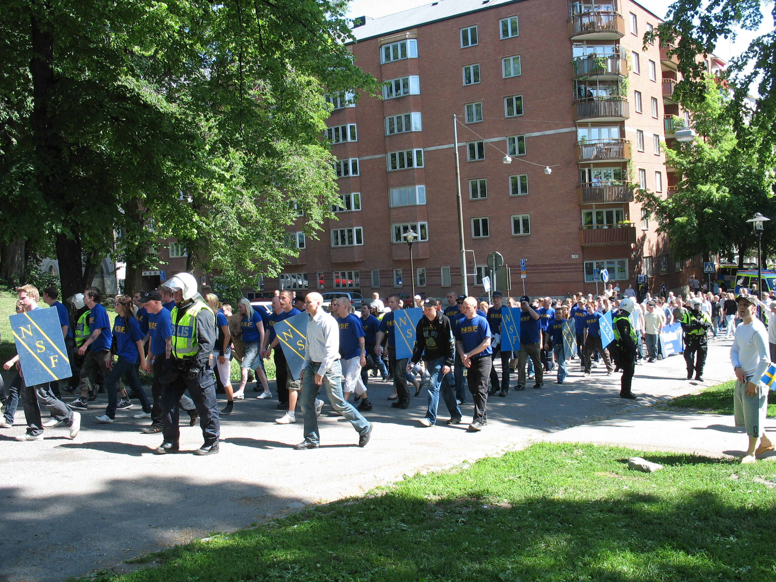 Members of the neo-Nazi organization National Socialist Front (Nationalsocialistisk front) taking part in a nationalist demonstration in Stockholm on National Day. Riot police are escorting the demonstrators in order to ward off violent clashes between nationalist and anti-racist activists.